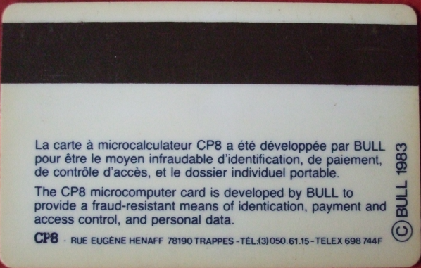 CP8 smart card (verso) - first commercially available smart card